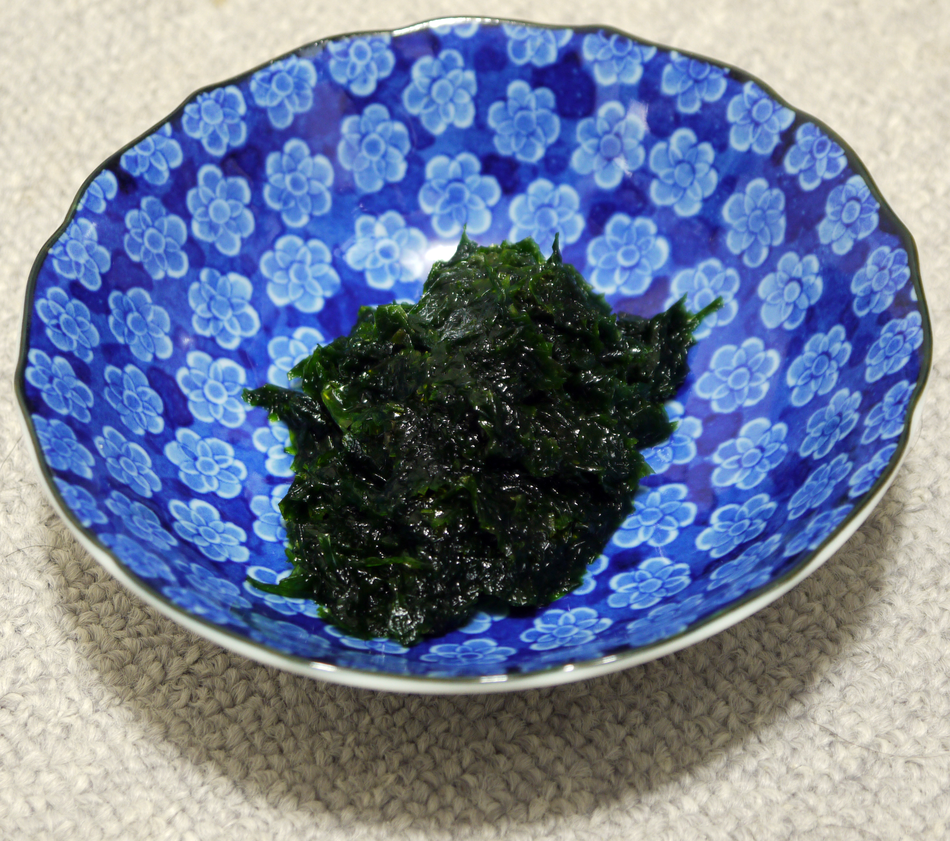 == Licensing: ==